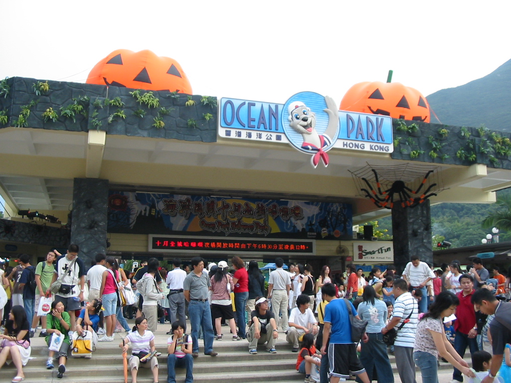 Main entrance of Ocean Park, Hong Kong. Photo taken by Wrightbus.